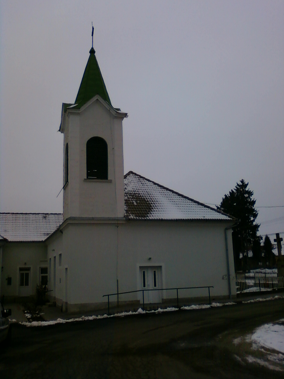 The Kerecseny Church, Zala county, Hungary